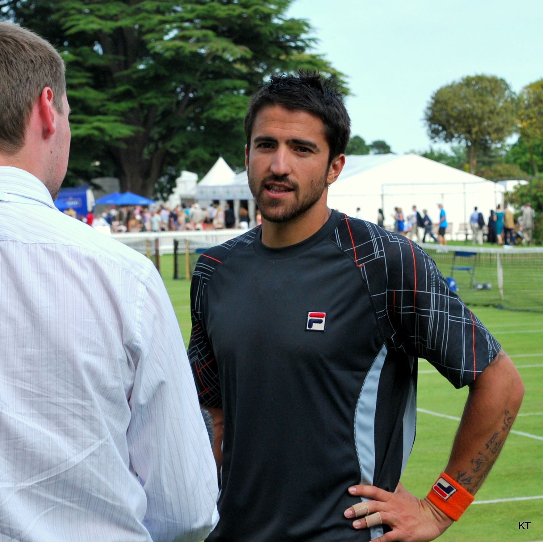 The Boodles, Stoke Park 2012.